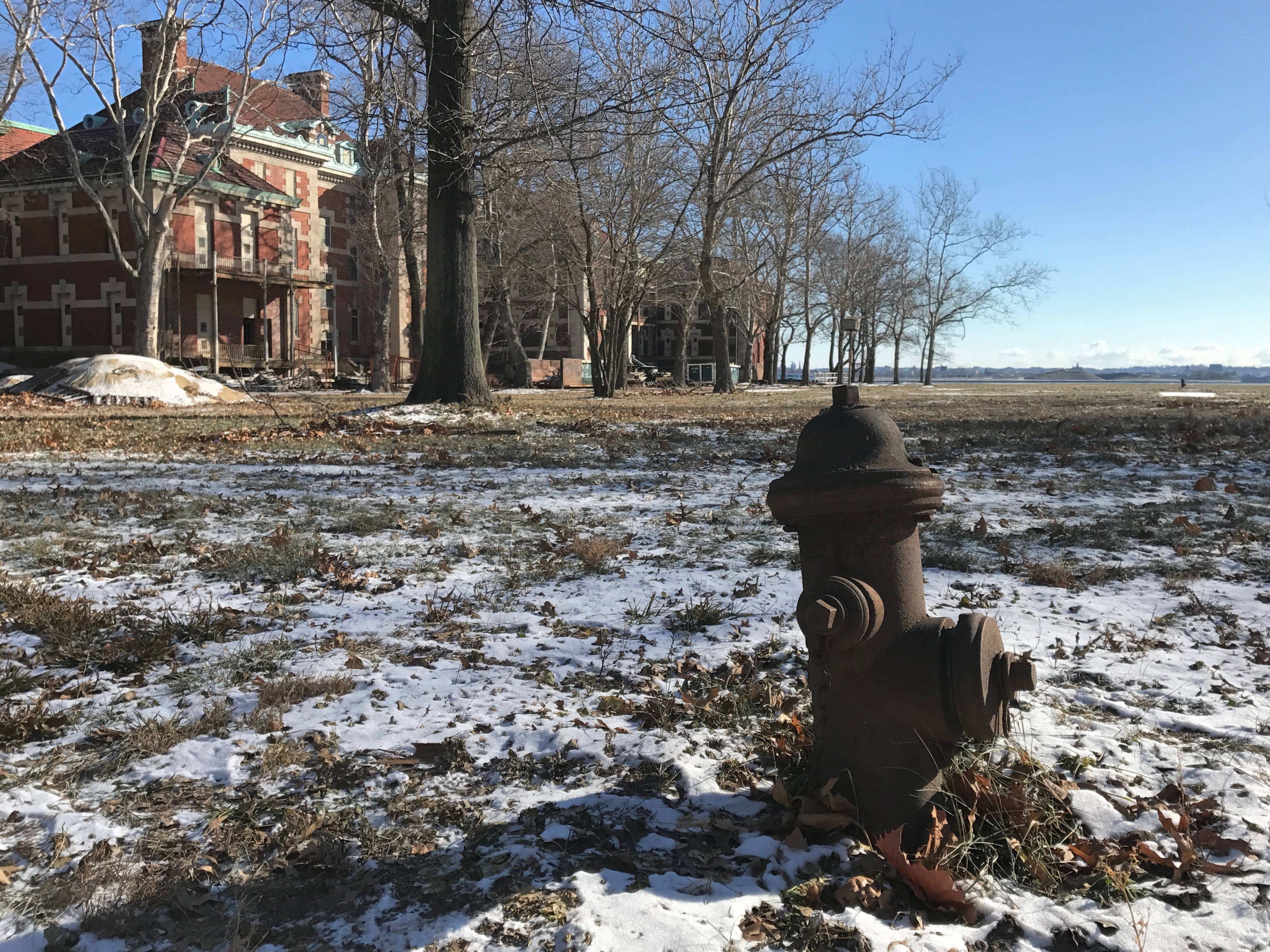 The lawn between island 2 and 3 that was filled in the 1920s. The buildings on the left are part of the general hospital of the Ellis Island Immigrant Hospital on island 2.